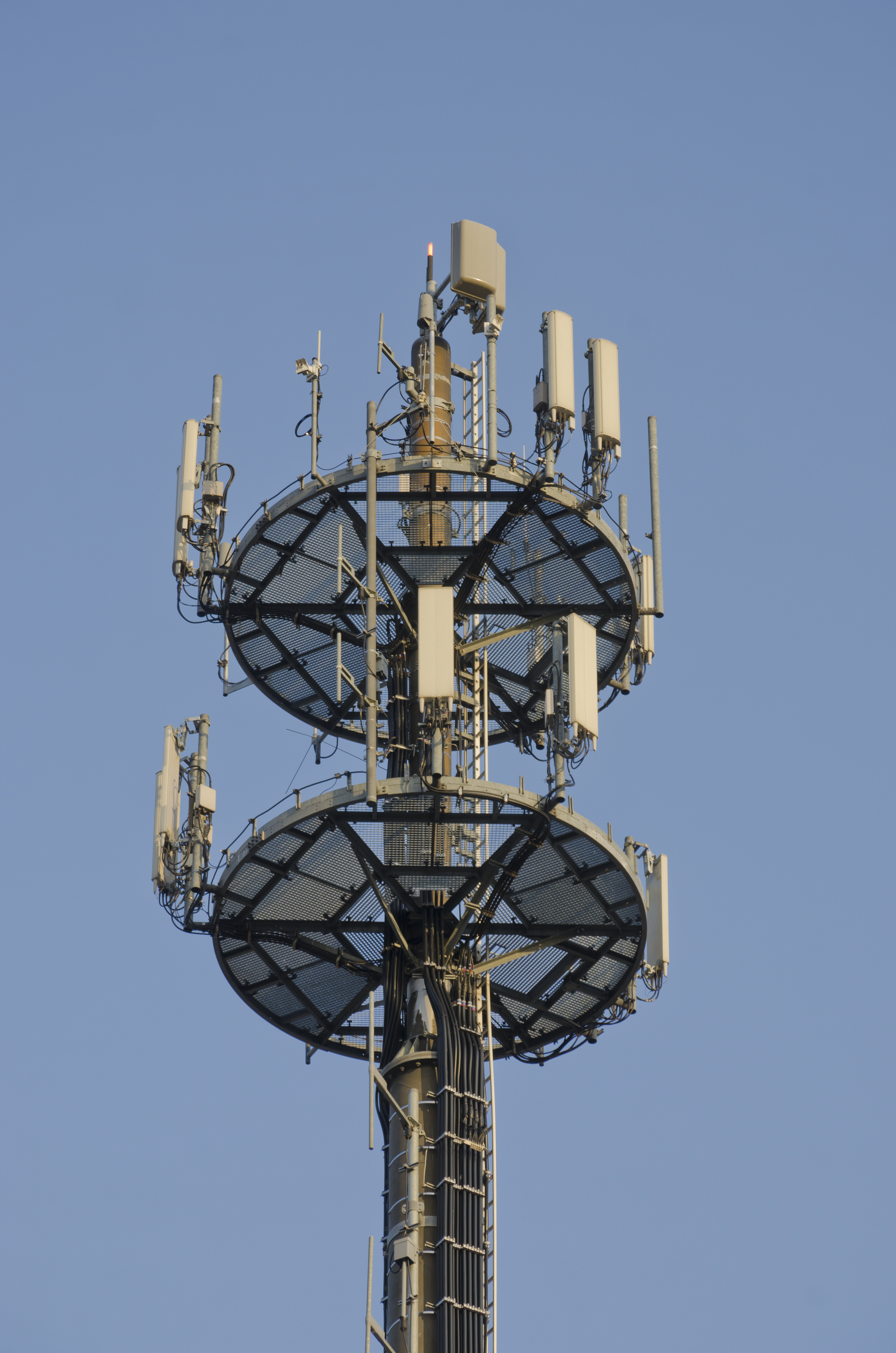 Cell tower at the Frankfurt airport (Fraport), Germany.